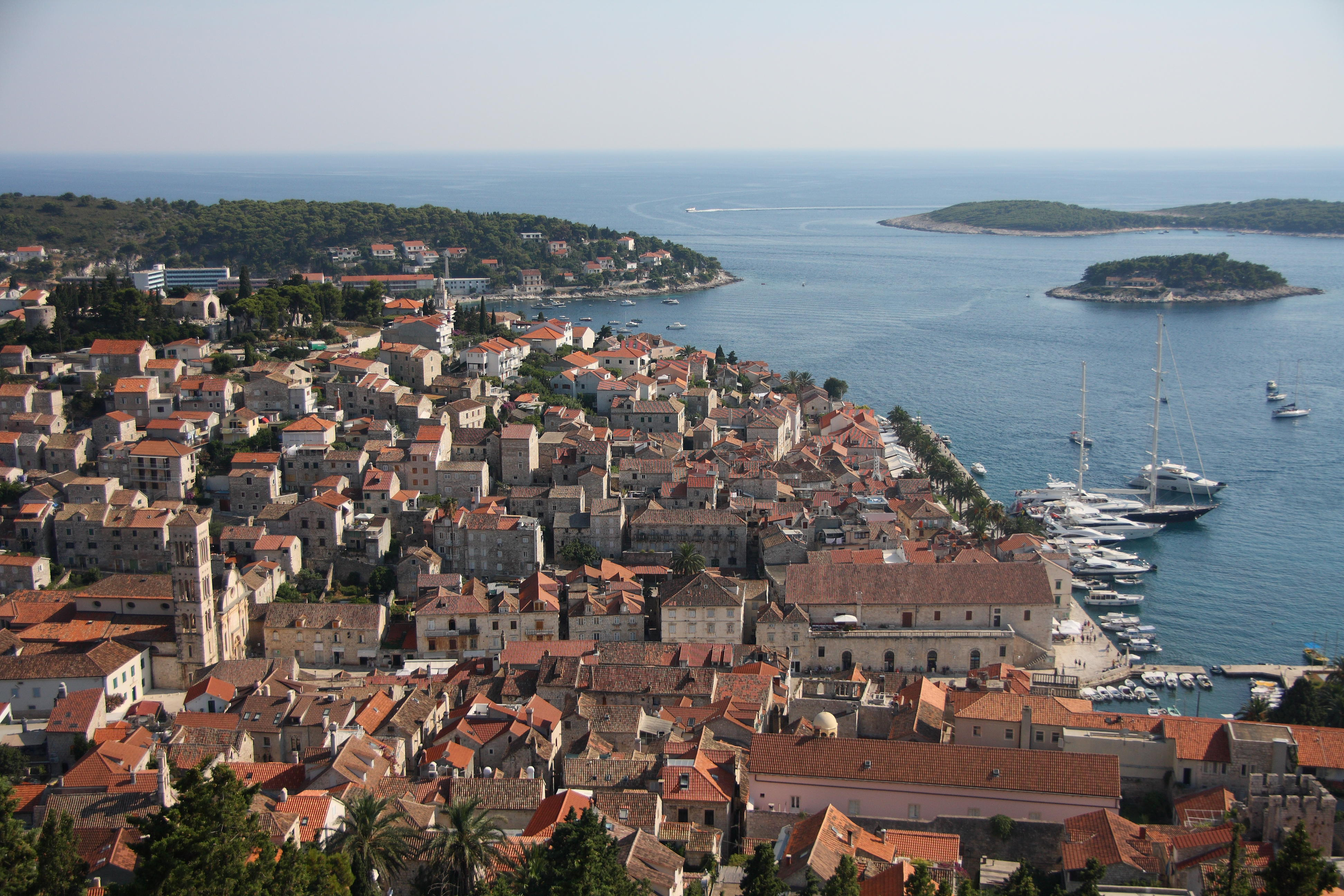 The centre of Hvar with the islands of Gališnik and Jerolim